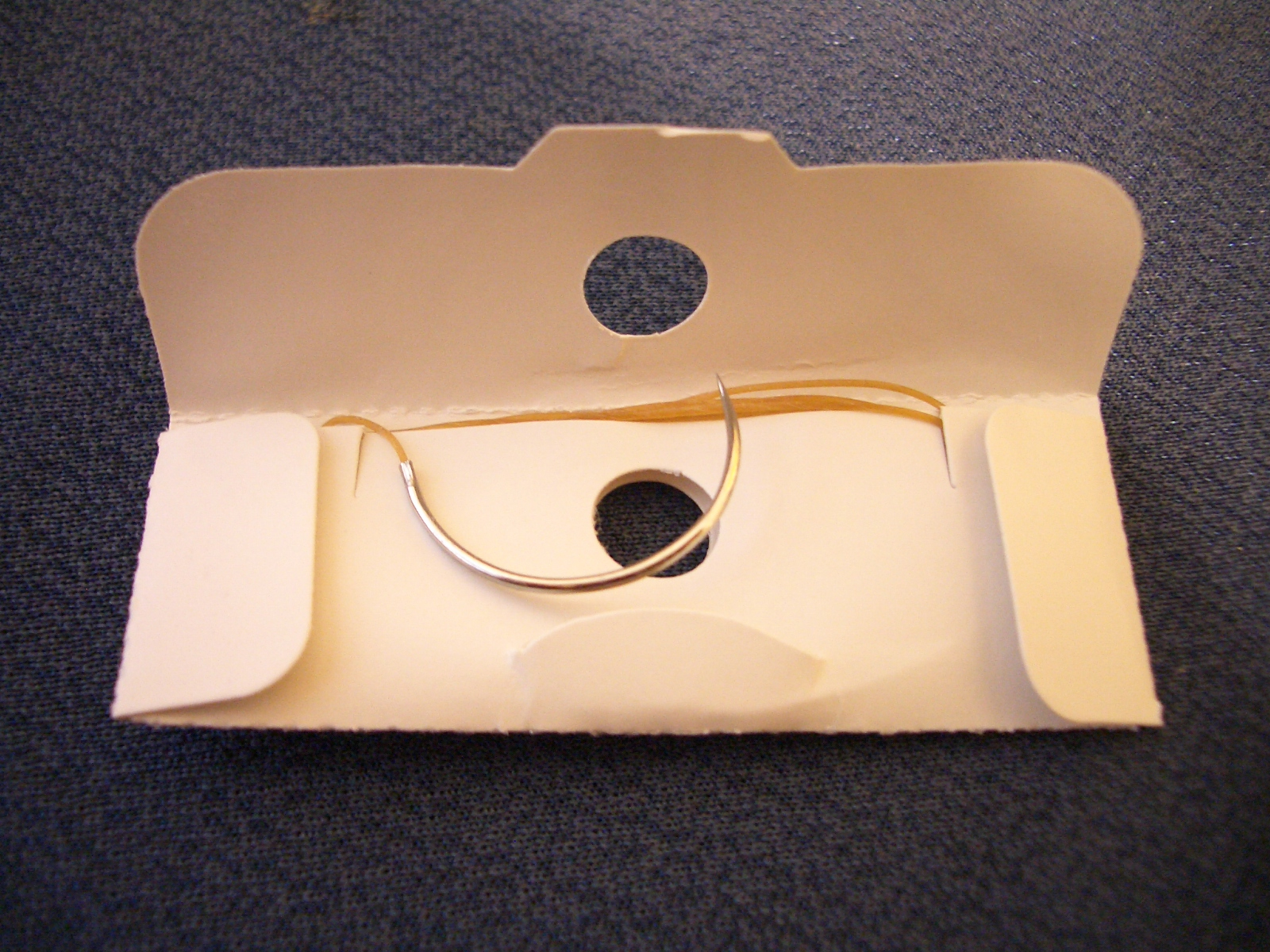 Surgical gut suture (Plain and Chromic) is an absorbable sterile surgical suture composed of purified connective tissue.